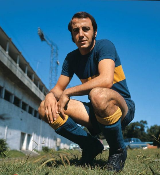 Boca Juniors player, Norberto Madurga.